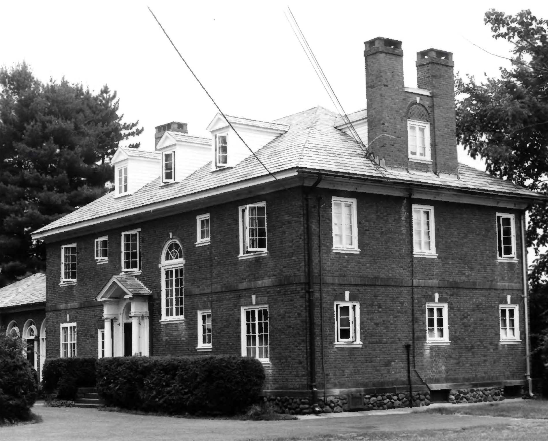 Charles H. Norton House, Plainville (Hartford County, Connecticut)